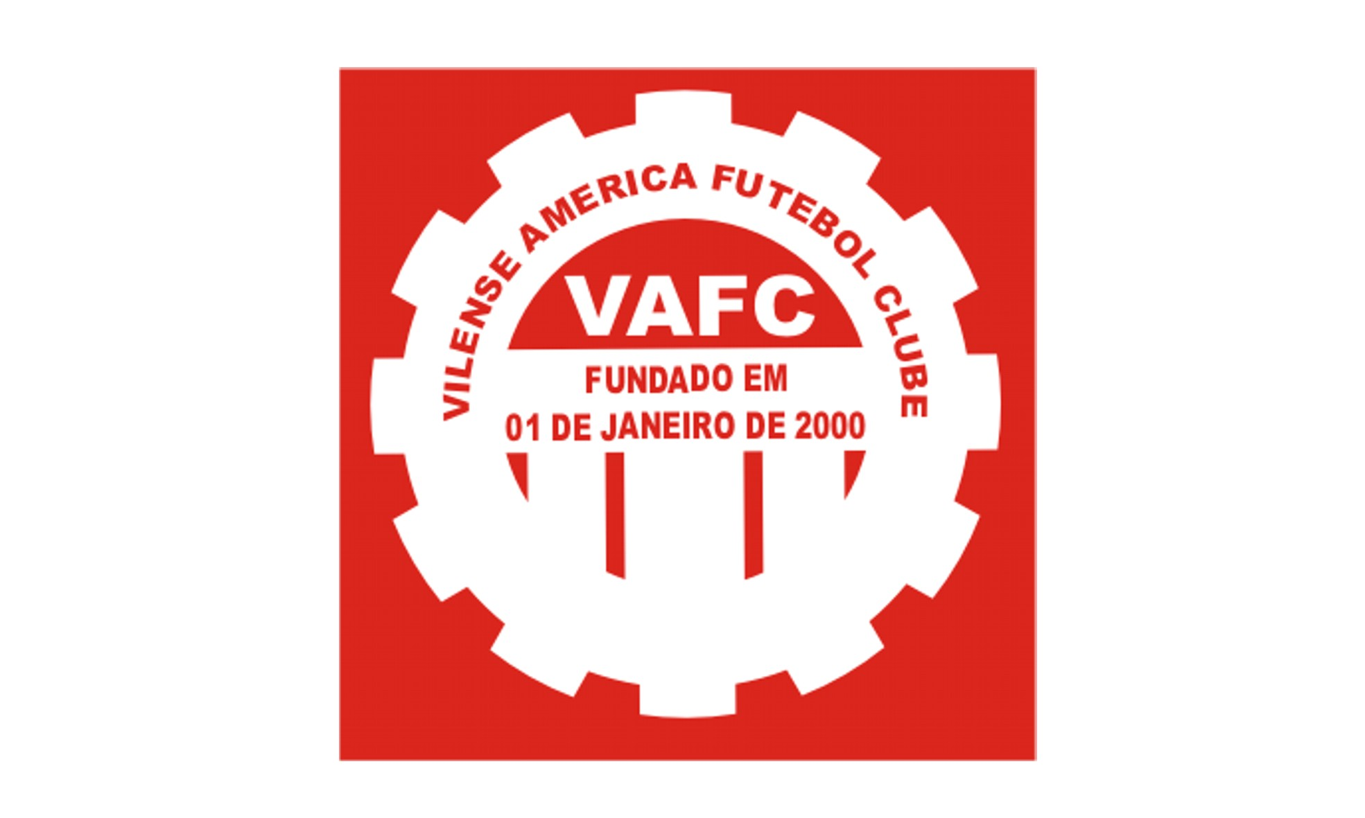 Vilense América Futebol Clube, an amateur soccer team from Pará de Minas.